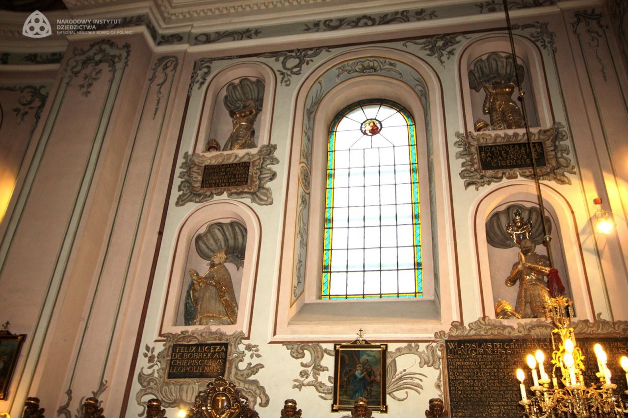 The mausoleum of the Ligęza noble family in Bernardine church, Rzeszów Poland.